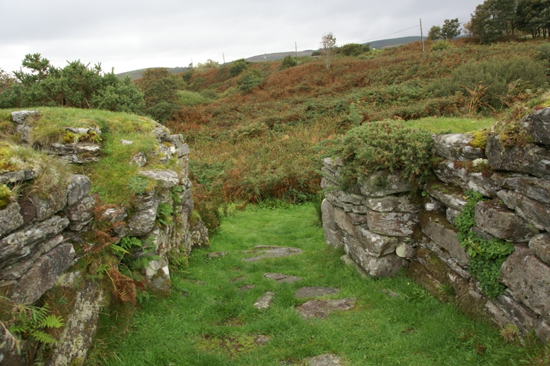 Kildonan Dun, Kintyre, Argyll and Bute, Scotland. Entrance seen from inside the dun.